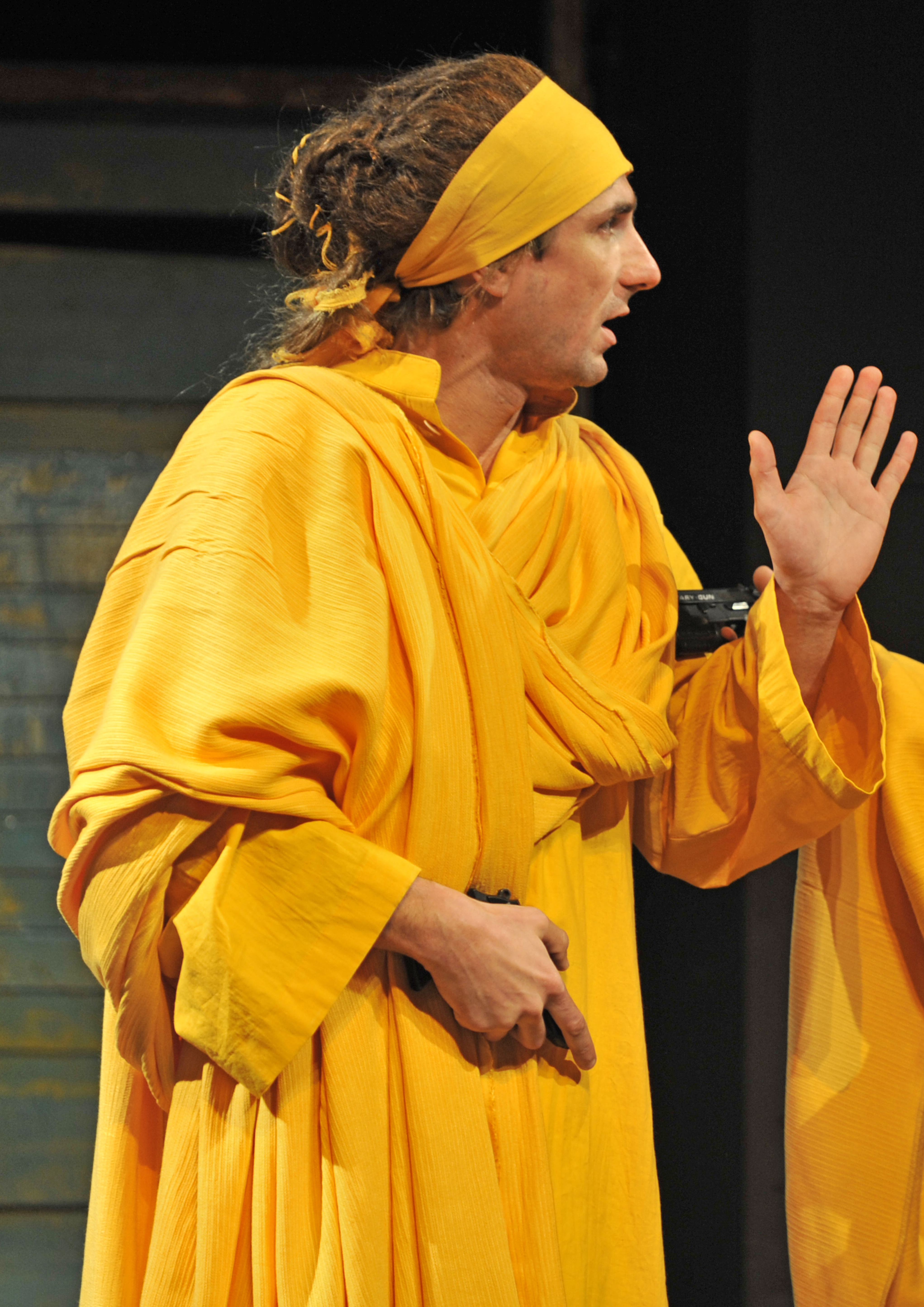 A Czech actor of Městské divadlo Brno Jaroslav Matějka